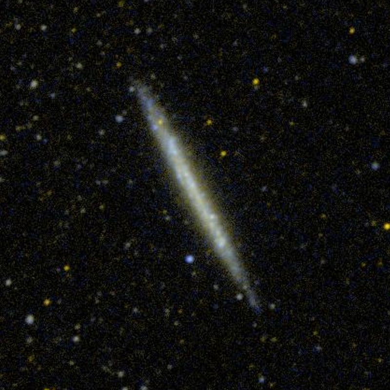 NGC 5023 galaxy by GALEX